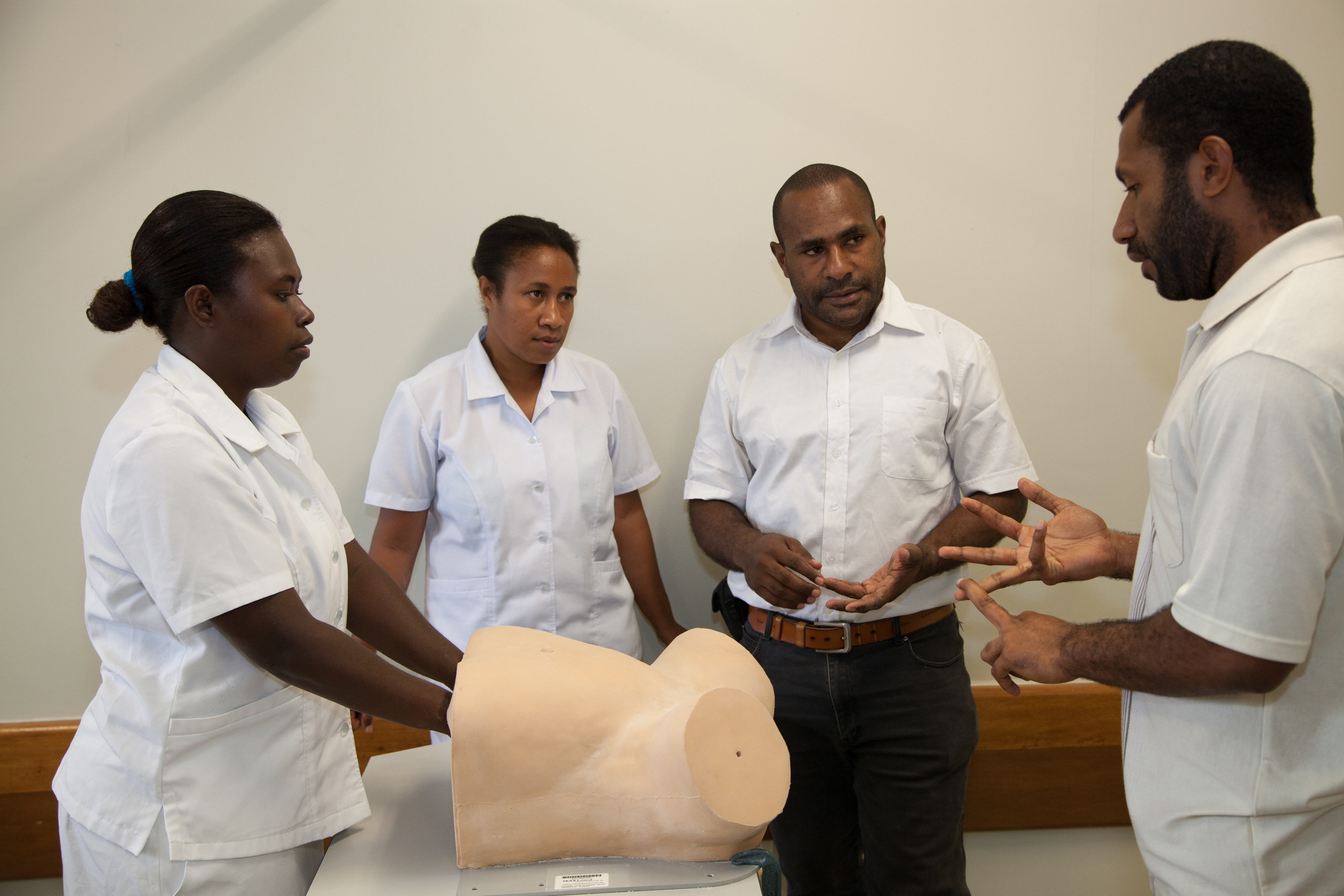 Midwives training at Pacific Adventist University PAU, outskirts of Port Moresby, PNG.